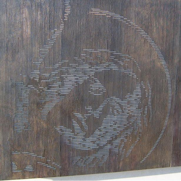 National Police Memorial Australia - stylised Saint Michael (patron saint of policing).